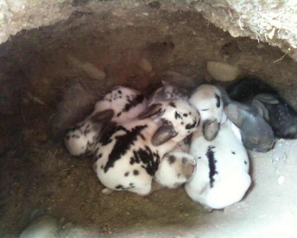 An underground nest of rabbit kits on the campus of the University of Victoria in Victoria, British Columbia, Canada. Might not be the native species because the campus' rabbit population came from released pets.